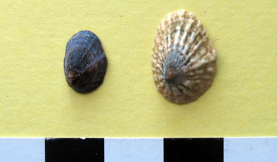 Siphonaria lateralis, synonym: Kerguelenella lateralis. Valvas de Kerguelenella lateralis obtenidas en la costa al sur de Puerto Deseado, Santa Cruz (Argentina)